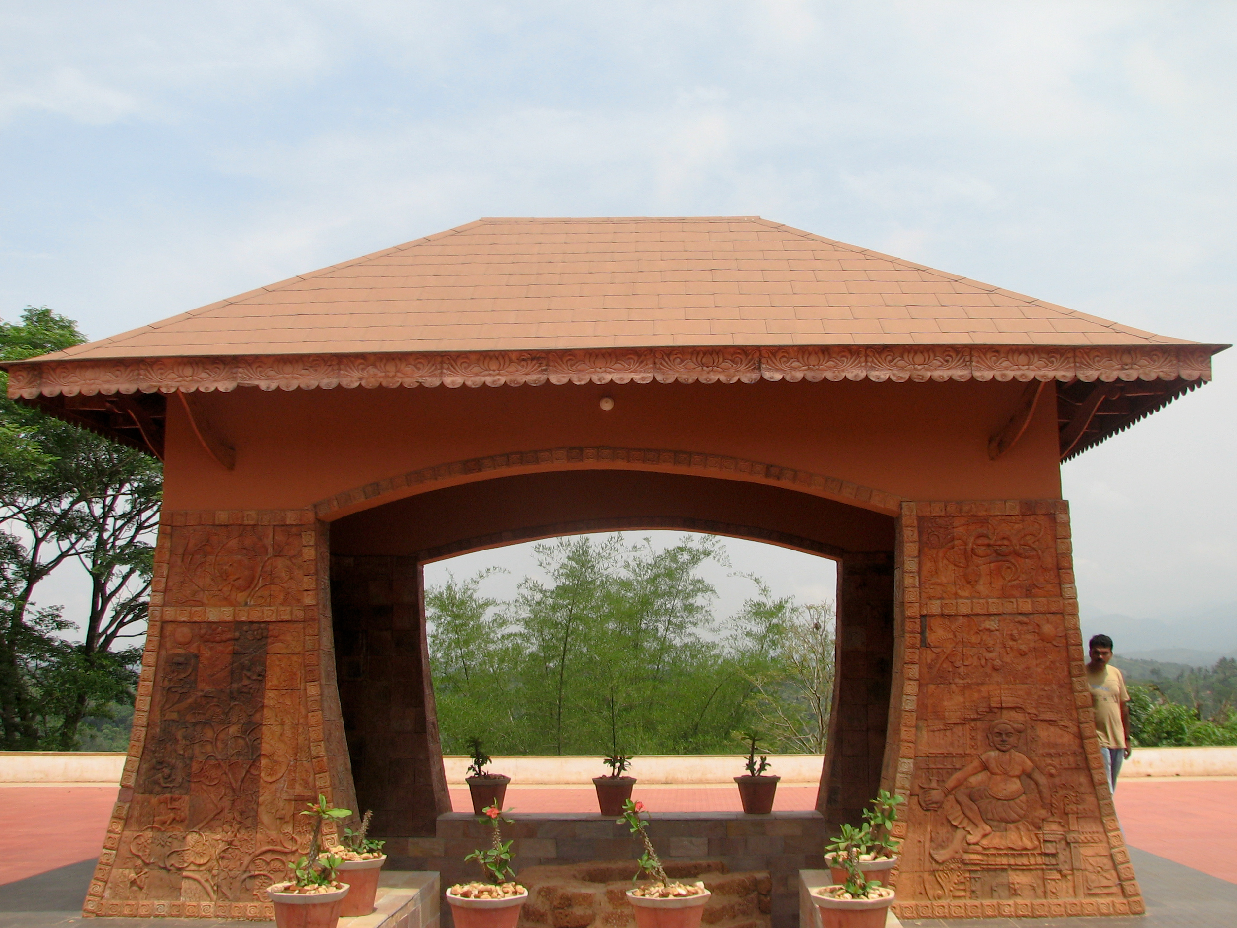 Memorial for Pazhassi Raja at his burial spot in Mananthavadi, Wayanad district, Kerala. Nishad K M